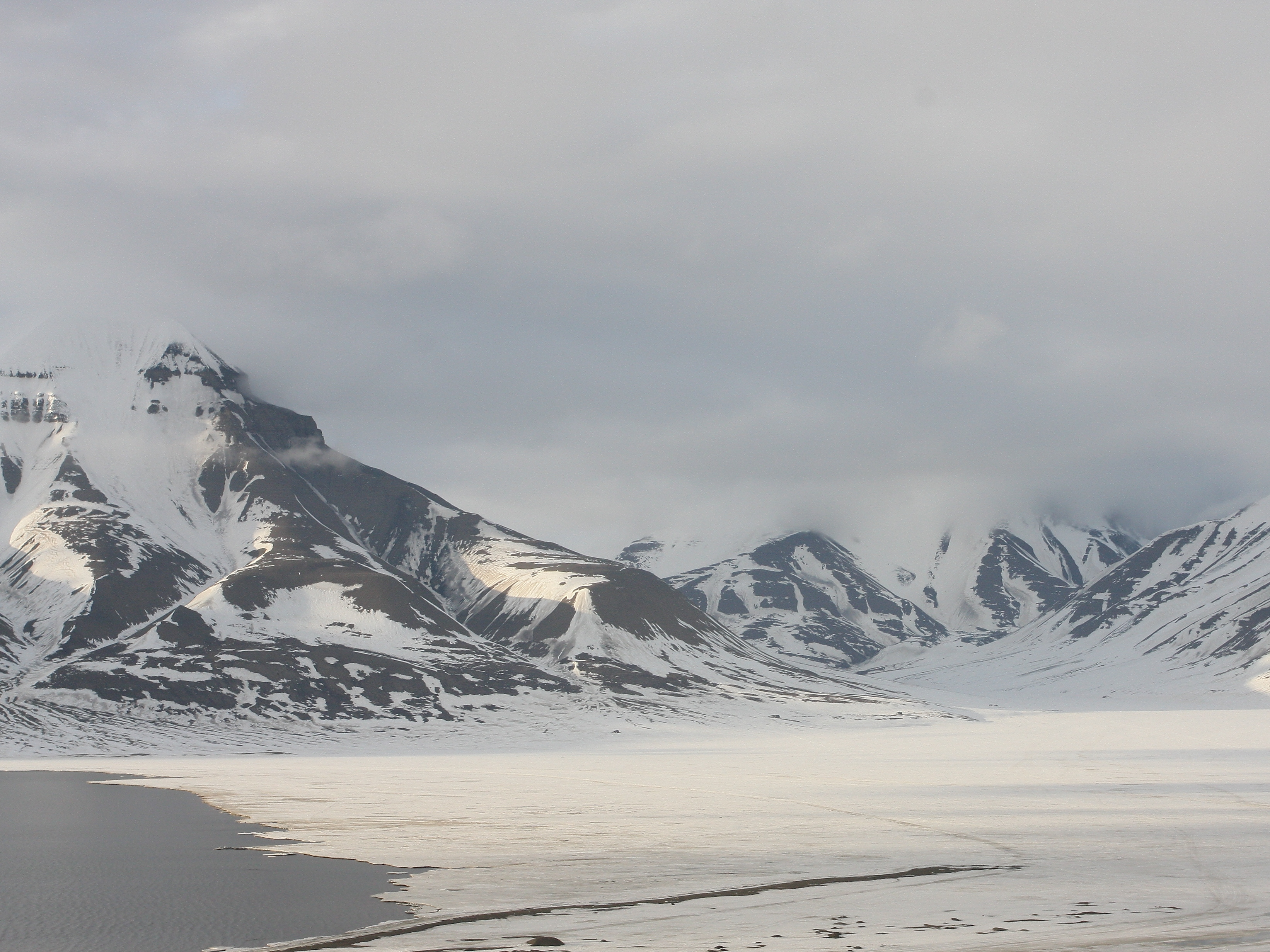 View from the mountain closest to Radisson hotel.